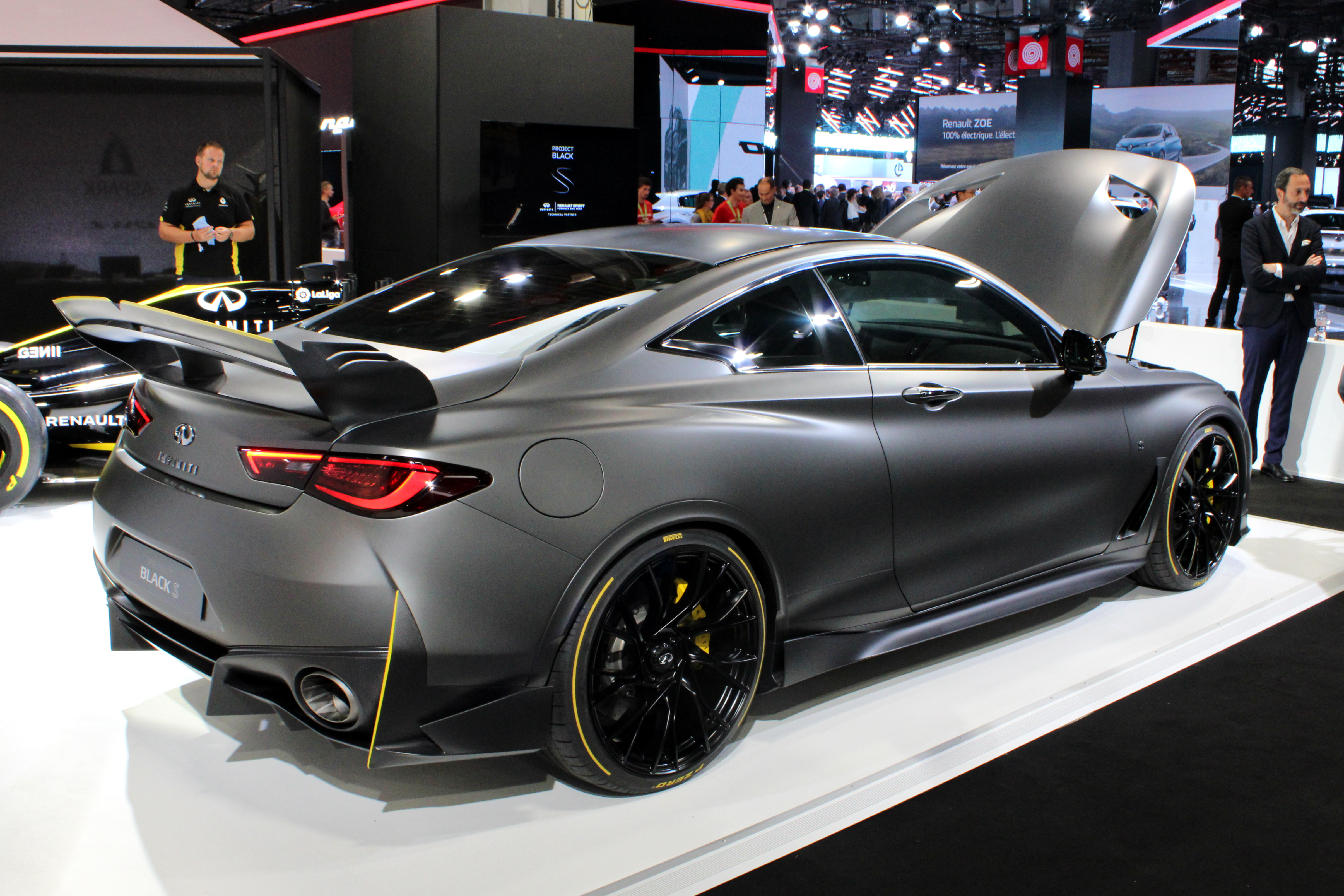 Infiniti Q60 Project Black S at Paris Motor Show 2018